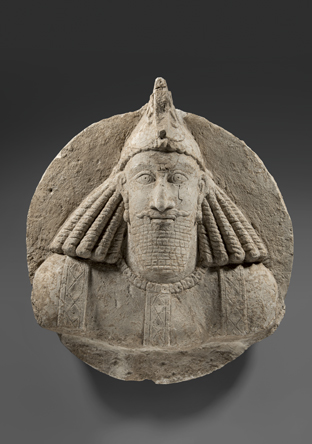 Sassanid nobleman, Hajiabad, Fars, Iran, National Museum of Iran